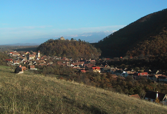 Information: View across Michelsberg towards Fagaras mountains. Source: own work Date: 03-11-03 Author: Lily 106